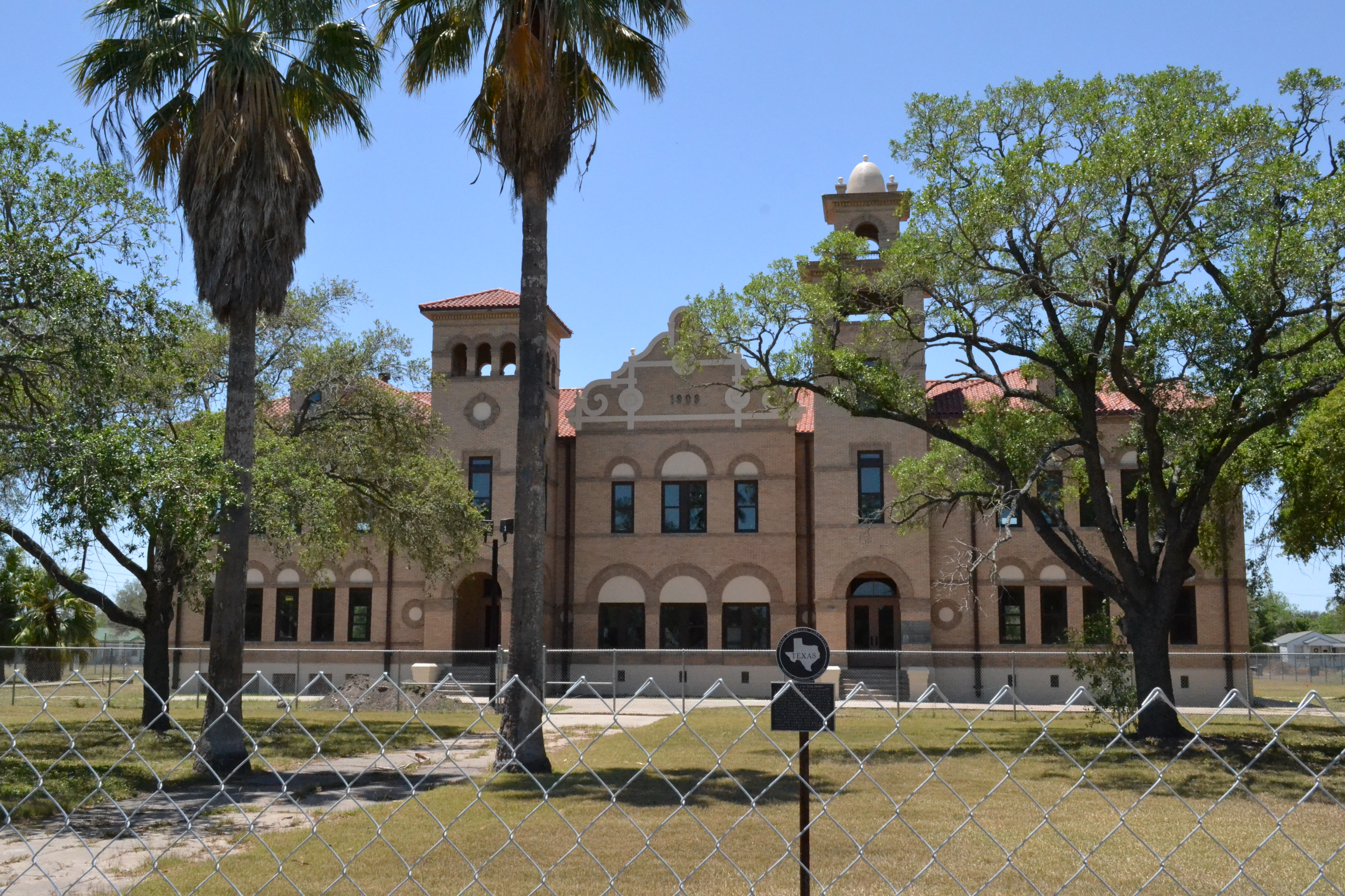 Henrietta M. King High School, Kingsville, Texas. Listed on the National Register of Historic Places.